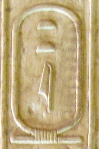 Cartouche 17, Abydos King List. Temple of Seti I, Abydos, Egypt